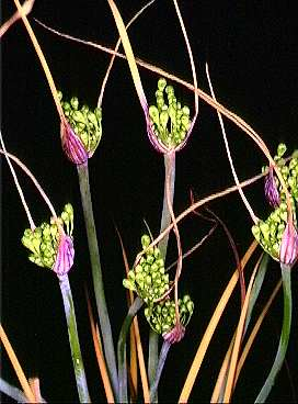 Sicilian botanical endemisms Allium nebrodense